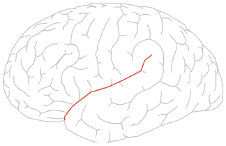 Lateral sulcus or Sylvian fissure of human brain